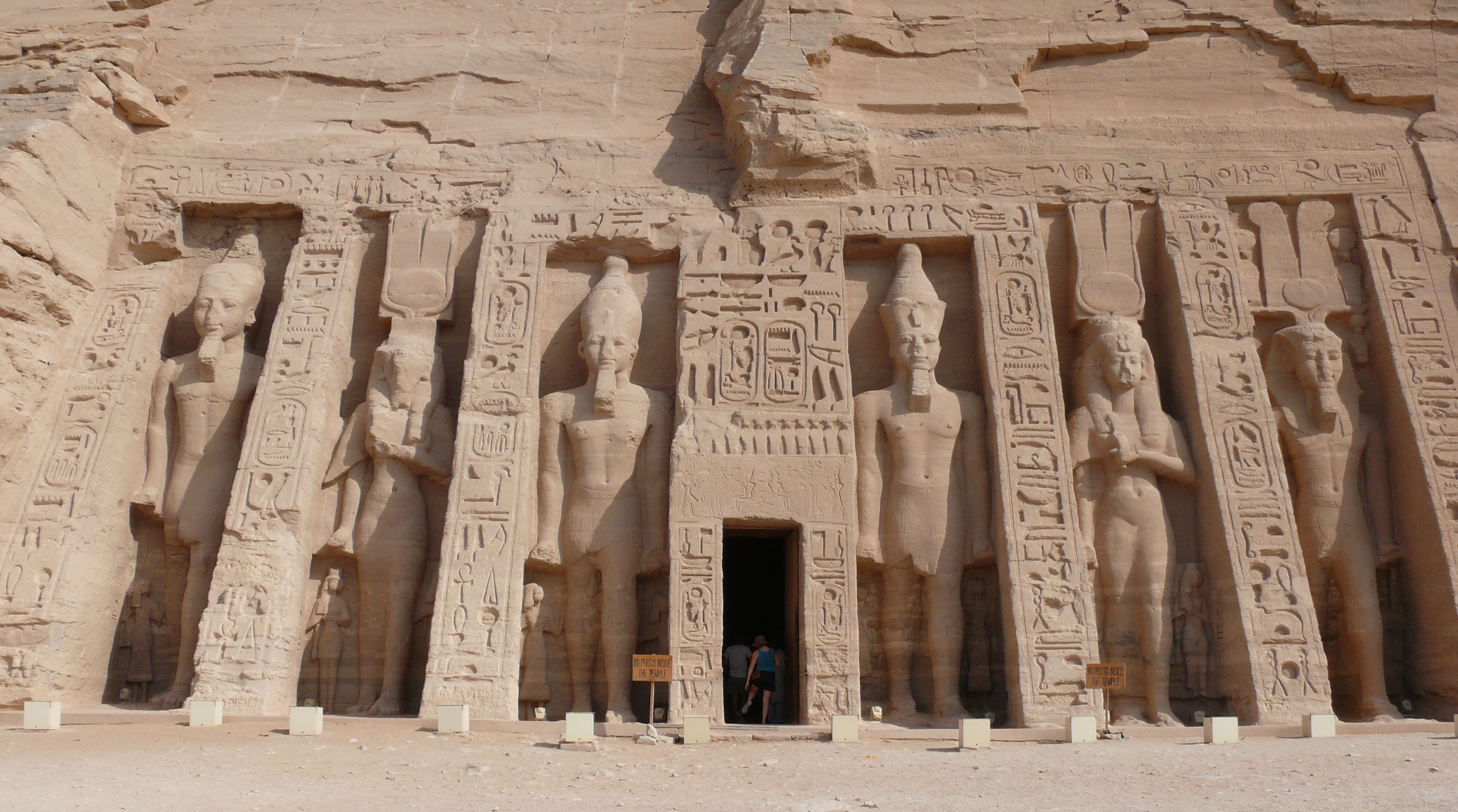 The temple of Hathor and Nefertari, also known as the Small Temple, dedicated to the goddess Hathor and Ramesses II's chief consort, Nefertari.